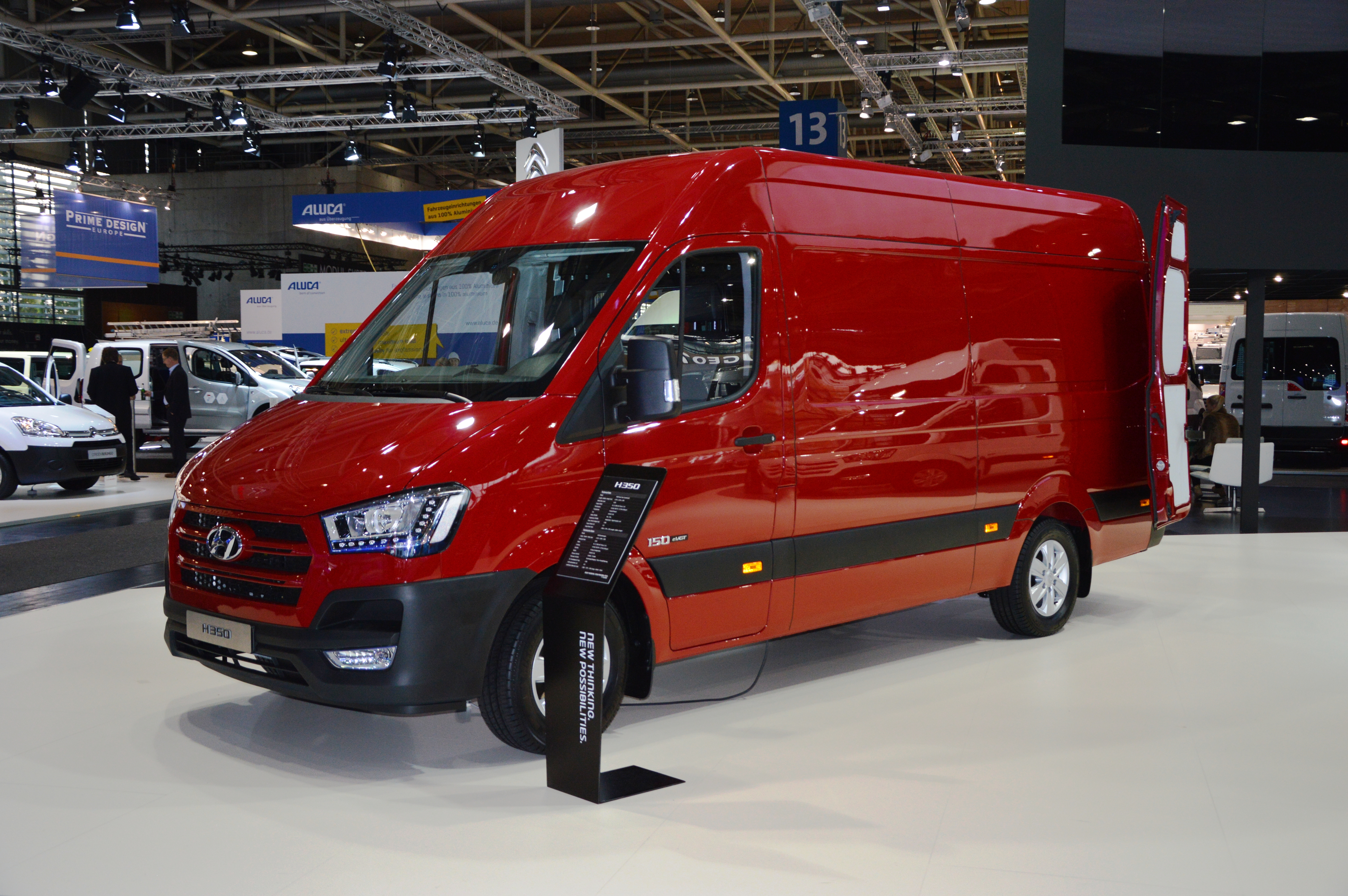 Hyundai H350 Panel Van (Costumized). Engine: AII 2.5 CRDi VGT (Euro 5 / 6). Performance: 110 KW). Photo taken at exhibition IAA 2014 in Hanover, Germany